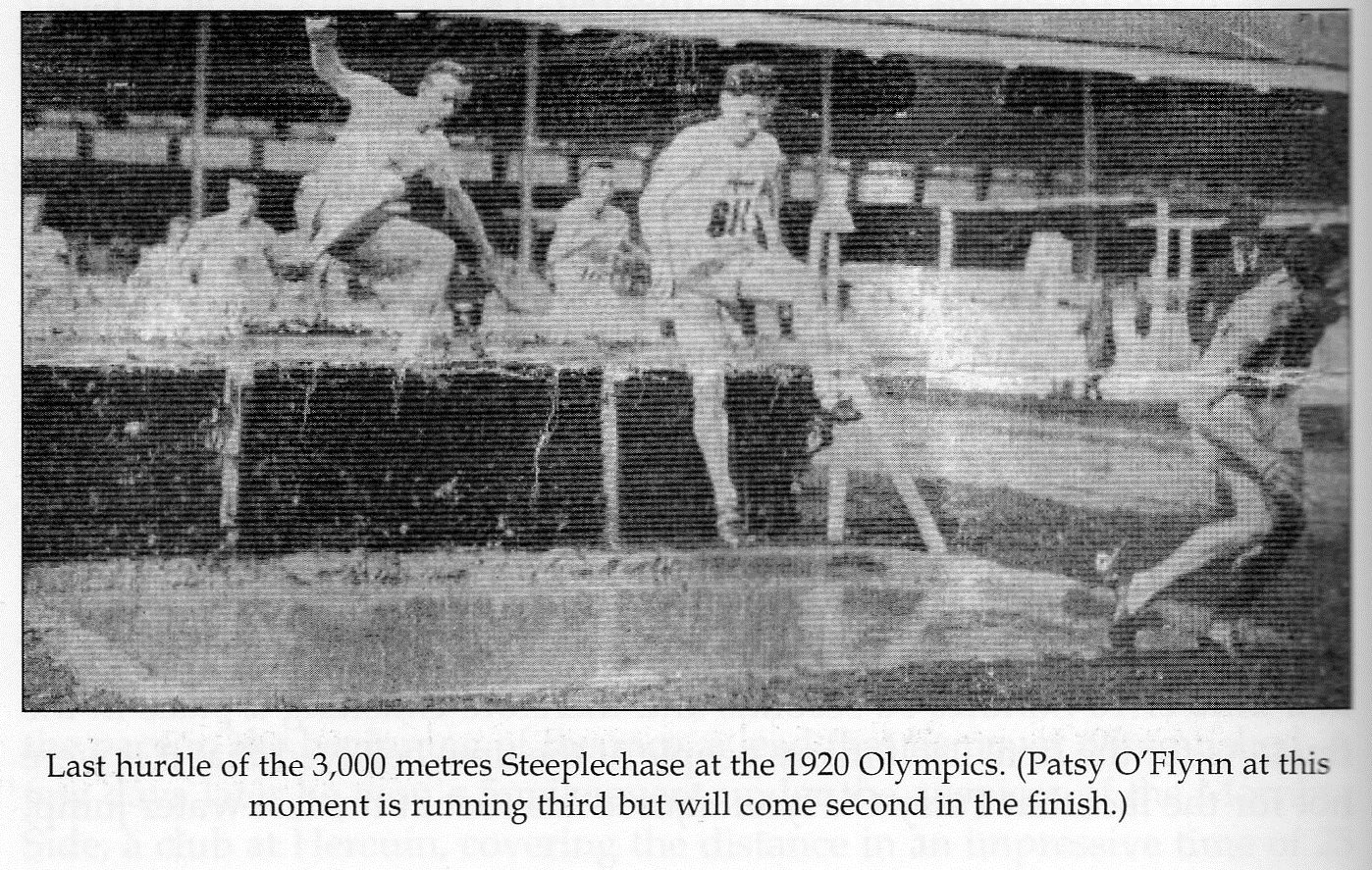 3,000 m steeplechase before ankle injury on the final hurdle